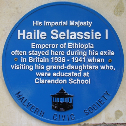 A blue plaque, commemorating Haile Selassie I stay at the Abbey Hotel in Great Malvern. It was unveiled on Saturday, June 25 2011.